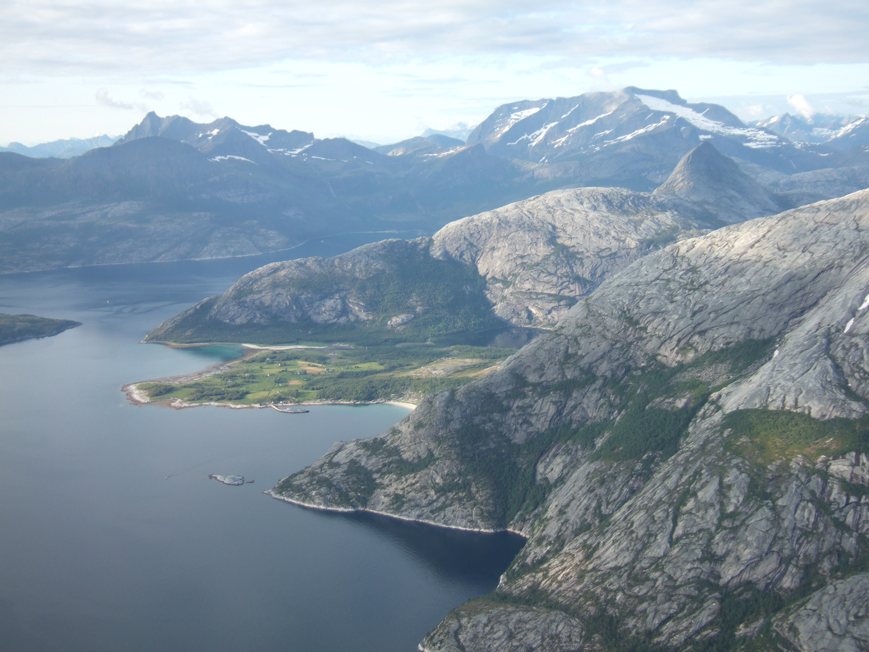 Rørstad village with the abandoned houses. In the village there is a church from 1761. In summer, people come back to the place and their properties.